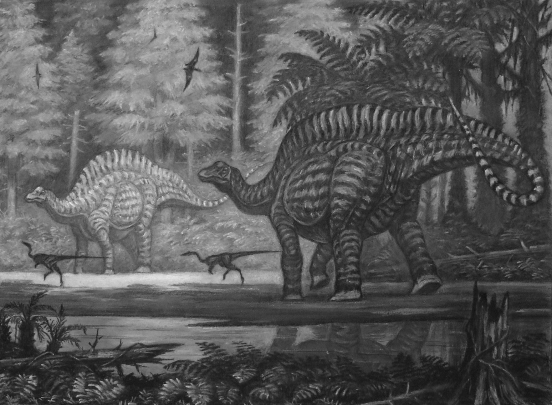 Brachytrachelopan in environment.